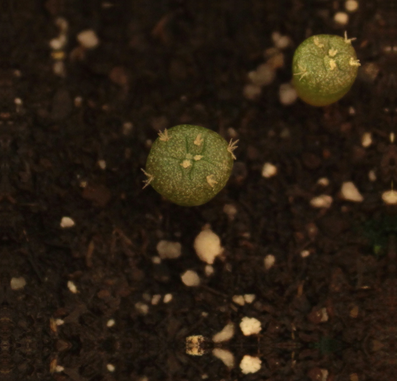 Approx 1 1/2 months